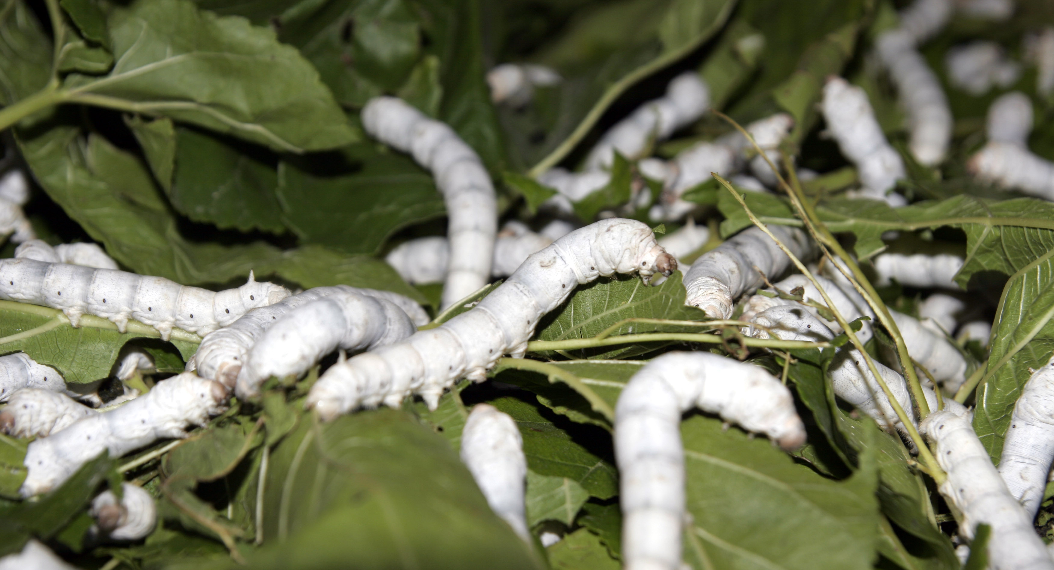 21-day-old silk worms between mulberry leaves in the Suzhou No. 1 Silk Mill (Jiangsu), China